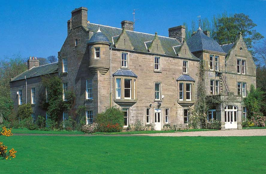 Balmuir House in 2000. Emmock Road, Dundee, near Tealing. Designed by John Murray Robertson.